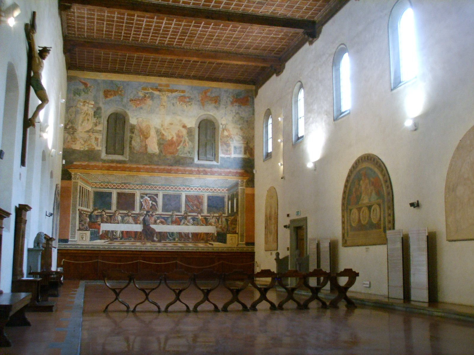 Refettorio's frescoes in Sant'Apollonia, in Florence Italy